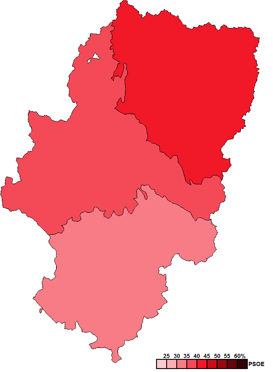 Provincial results for the 2003 Aragonese regional election.